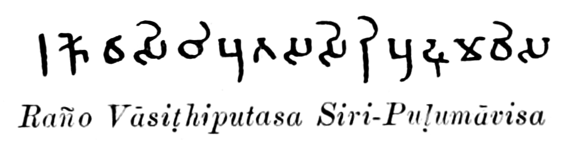 Vasishthiputra Pulumavi coin legend